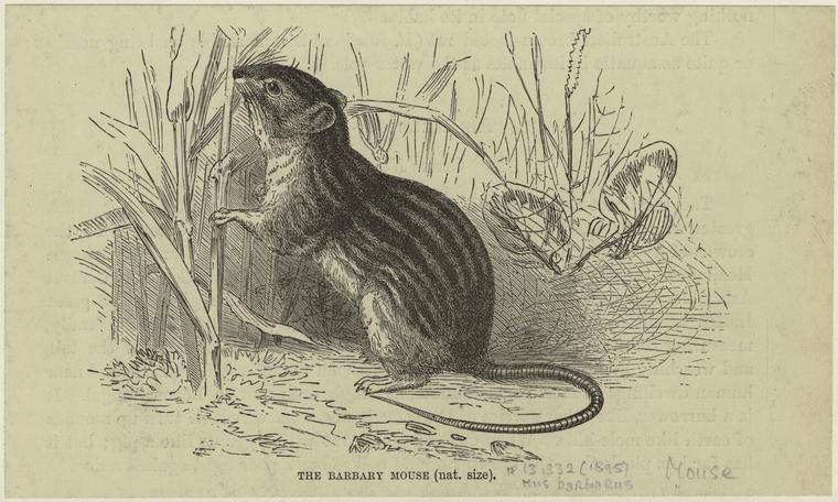 Printed on border: "Nat. size." Written on border: "Mus barbarus."